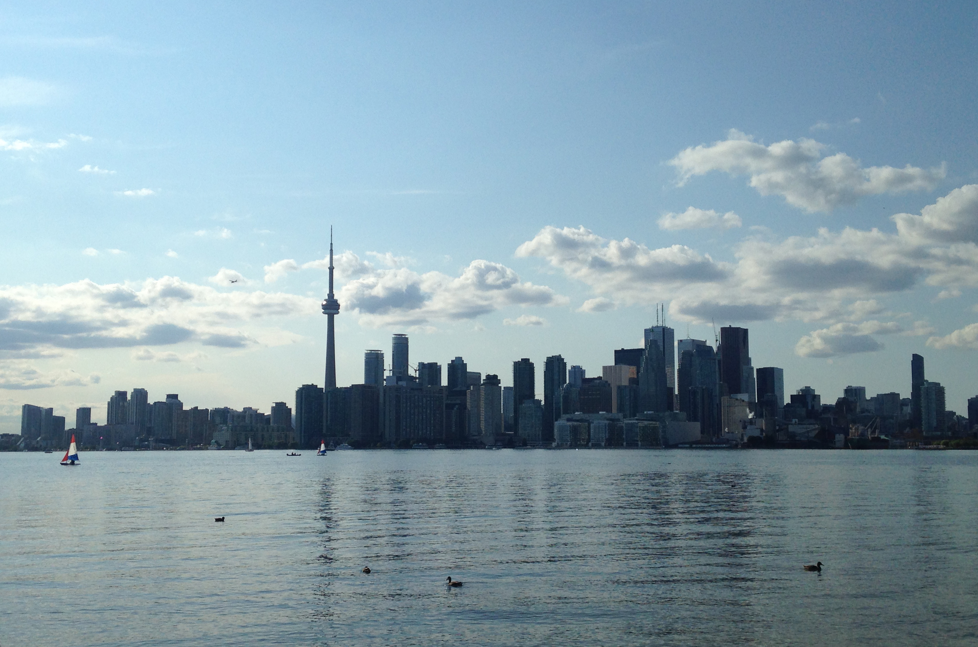 Toronto skyline with CN tower, sail boat, and ducks.